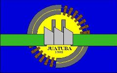 Juatuba city's flag, Minas Gerais state, Brazil.